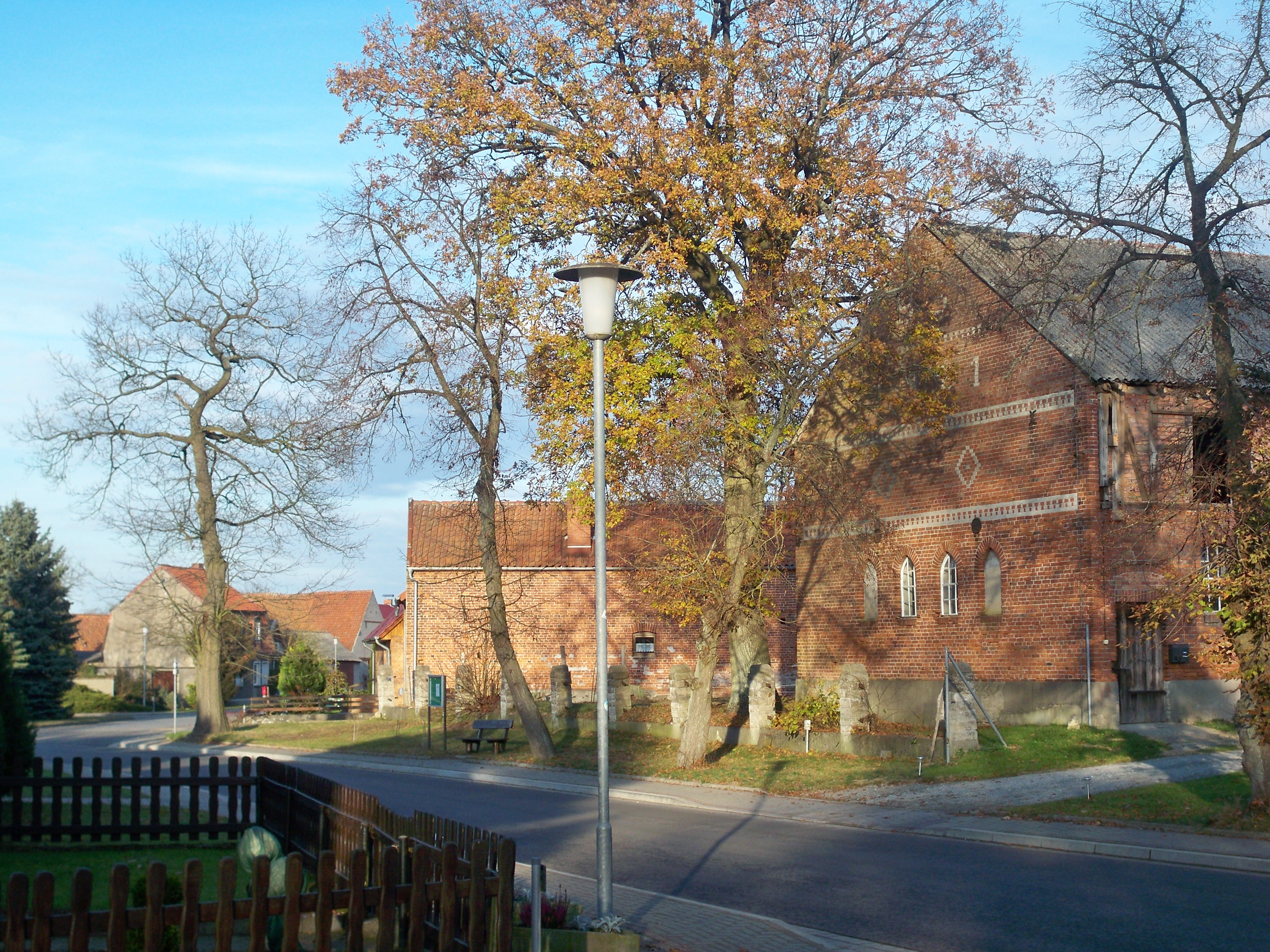 Wendischbrome, Jübar municipality, Saxony-Anhalt, village centre